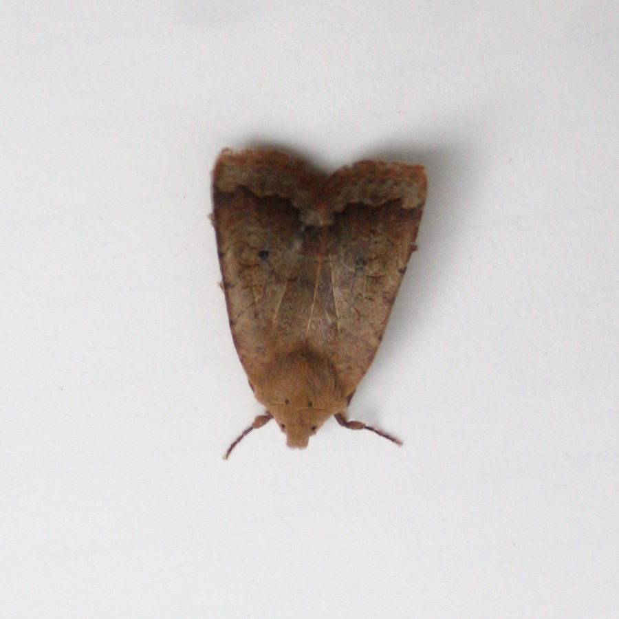 Variable Sallow (Sericaglaea signata). The focus on this photo isn't great, but I included it because the color is a little more accurate than in the flashed photos.